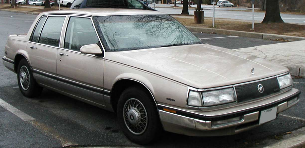 1989-1990 Buick Electra photographed in College Park, Maryland, USA.